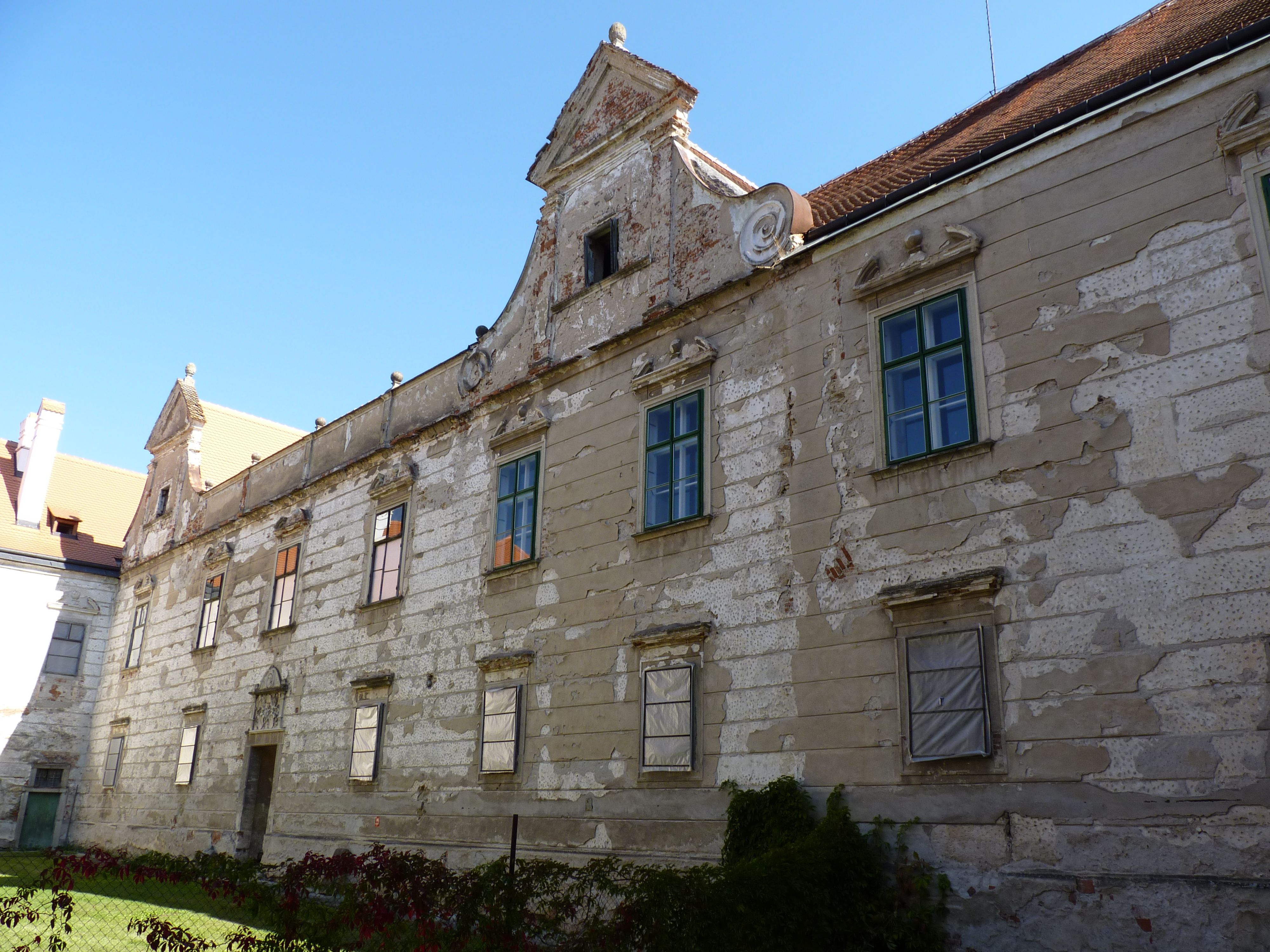 Uherčice Castle, Znojmo District, South Moravian Region, Czech Republic